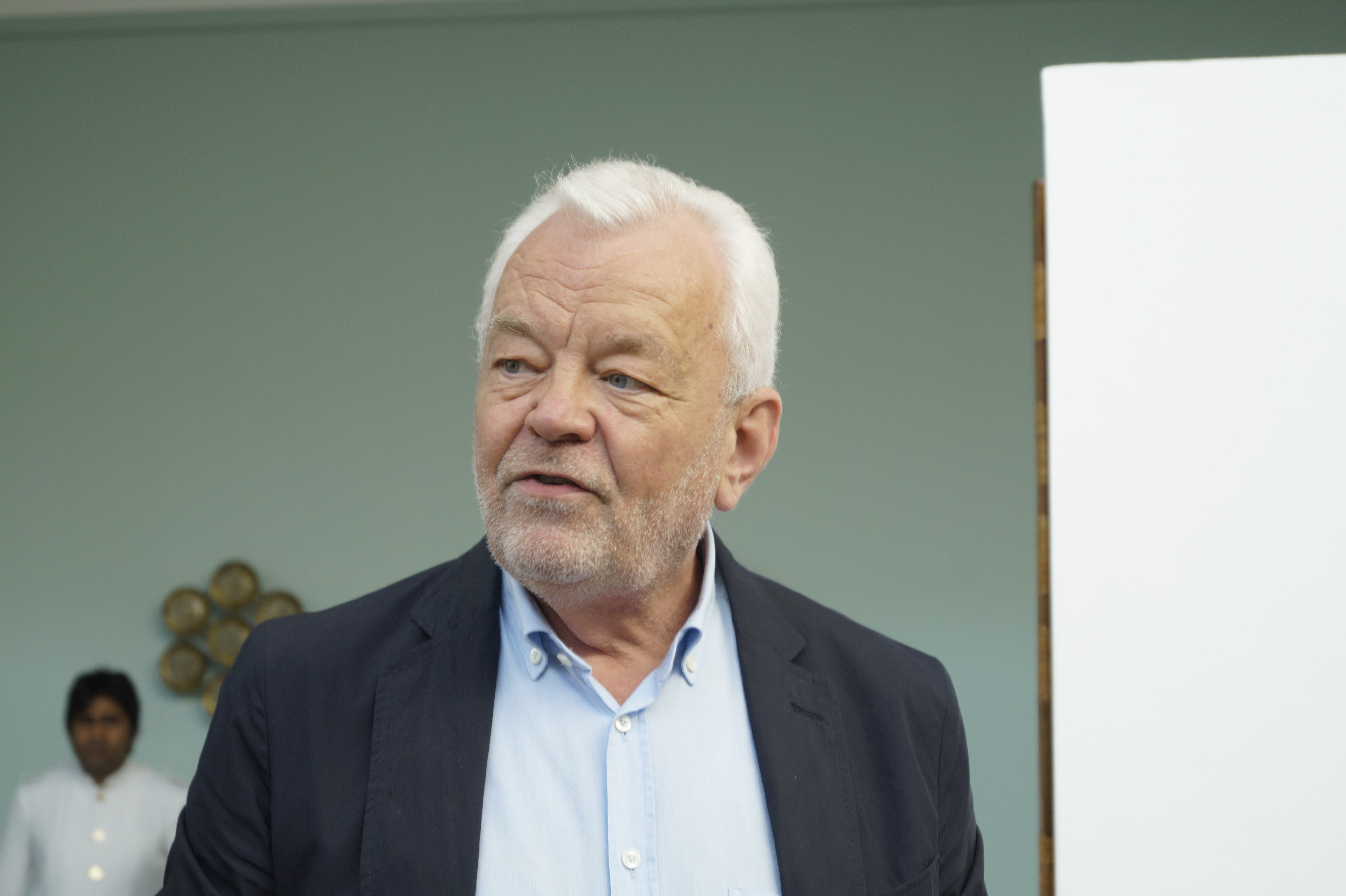 Harald Sandberg: Ambassador Extraordinary and Plenipotentiary of Sweden to India